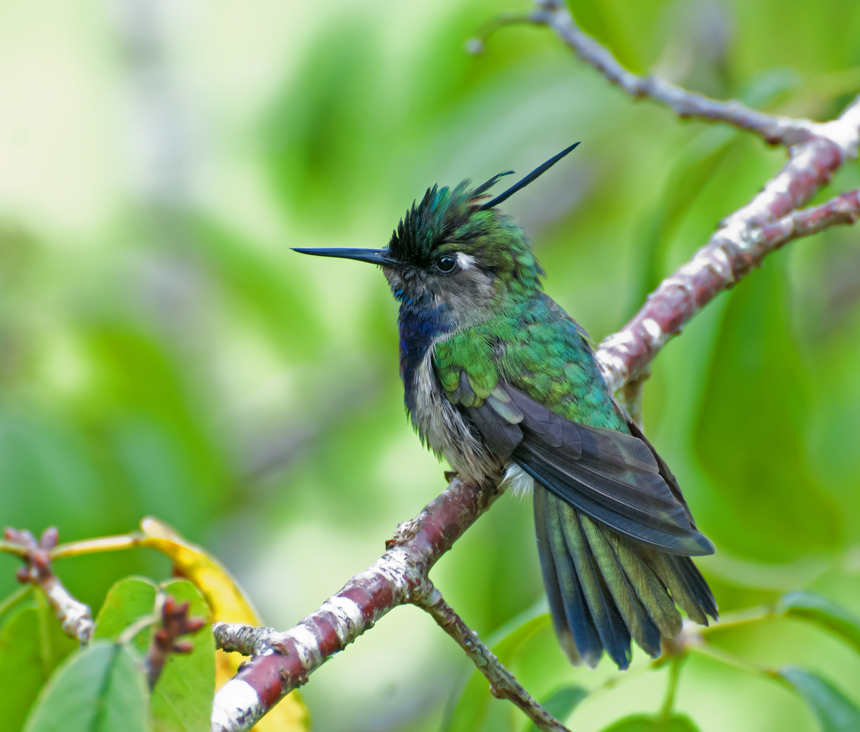 A Plovercrest in Campos do Jordão, São Paulo, Brazil.